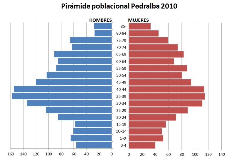 Pedralba's Population pyramid